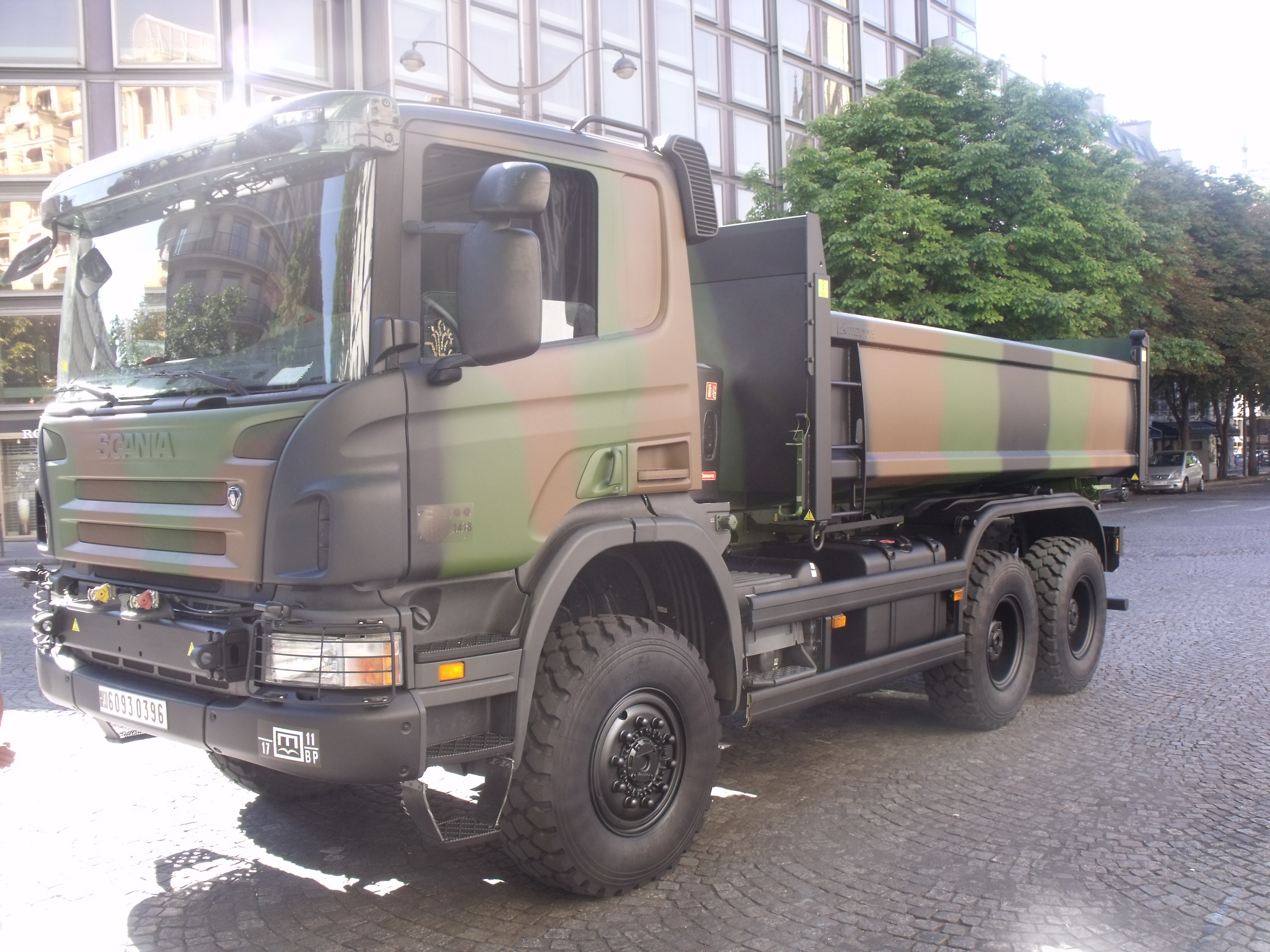 All-wheel dump truck, used by the French Army.